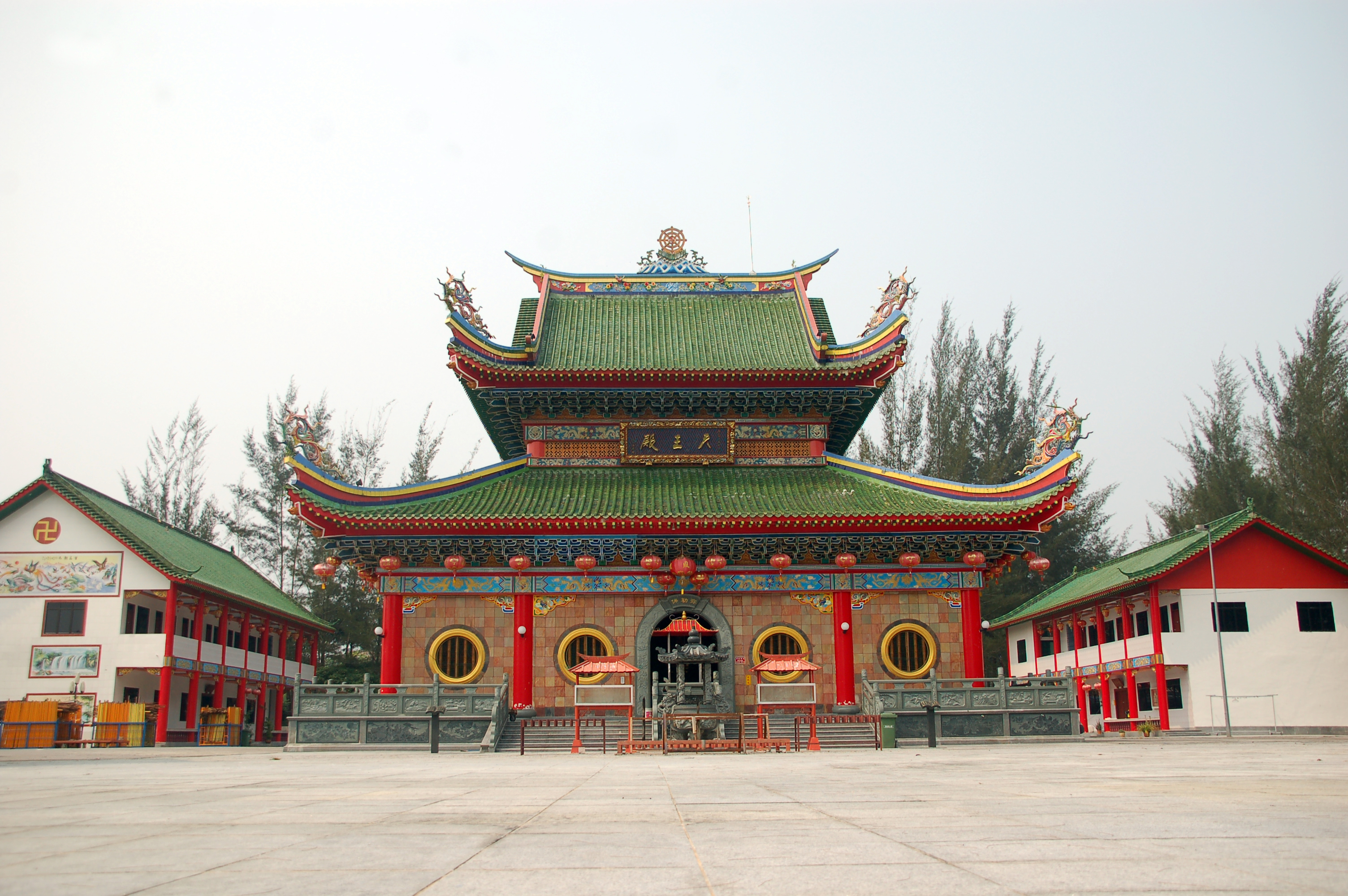 Yu Lung San Tien En Si (Jade Dragon Temple)